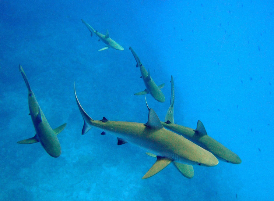 Gray reef sharks (Carcharhinus amblyrhynchos) at Kure Atoll in the Northwestern Hawaiian Islands.